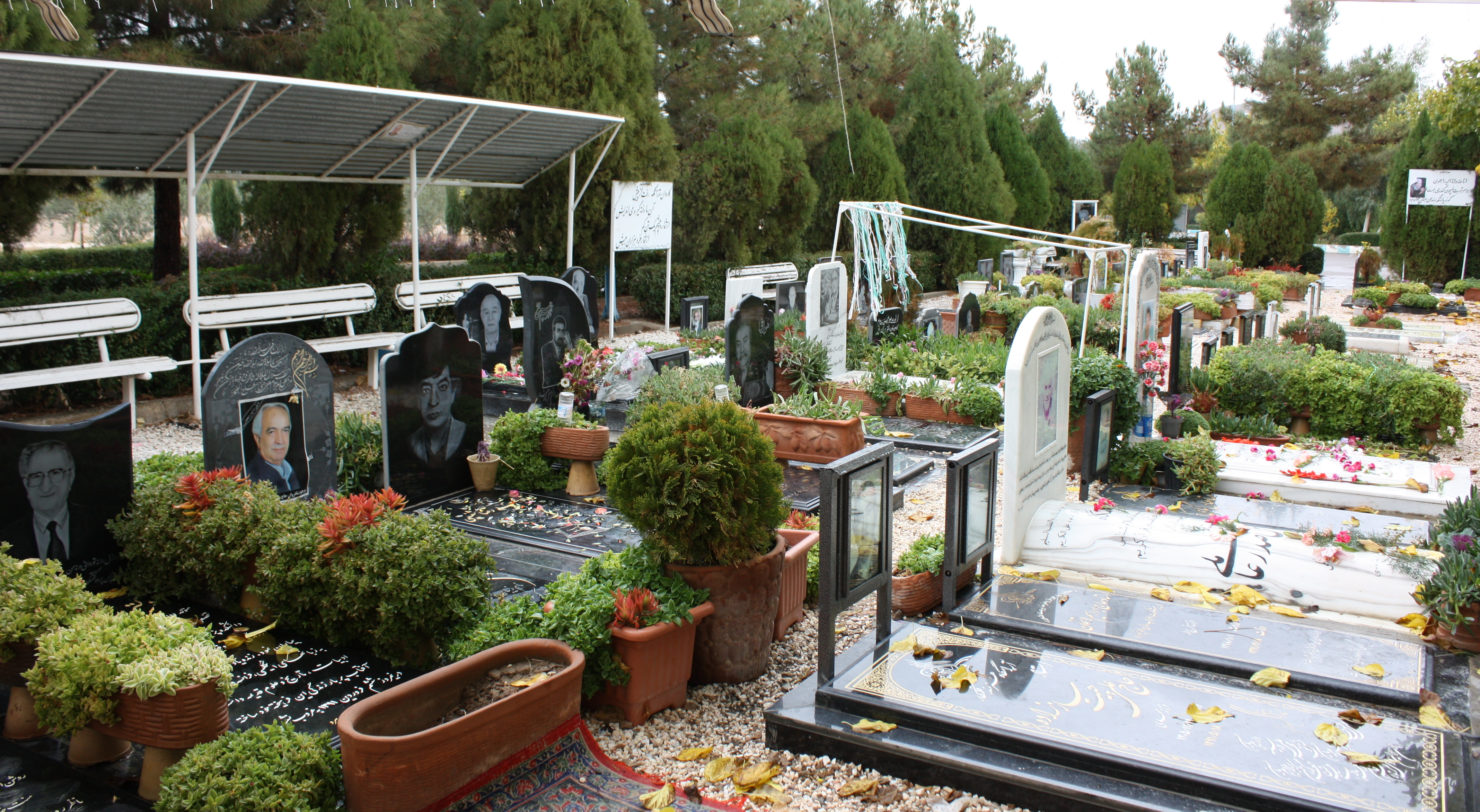 Artists block of Isfahan Bagh Rezvan